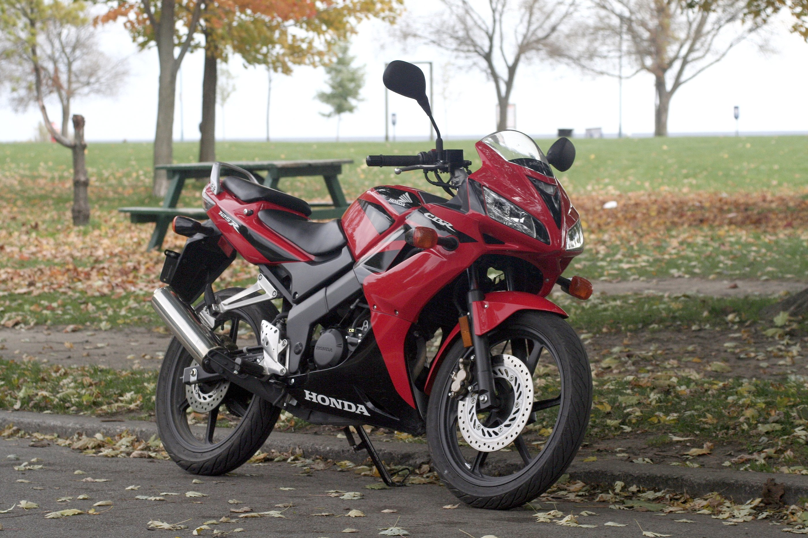 2008 Honda CBR125R (Canadian model)